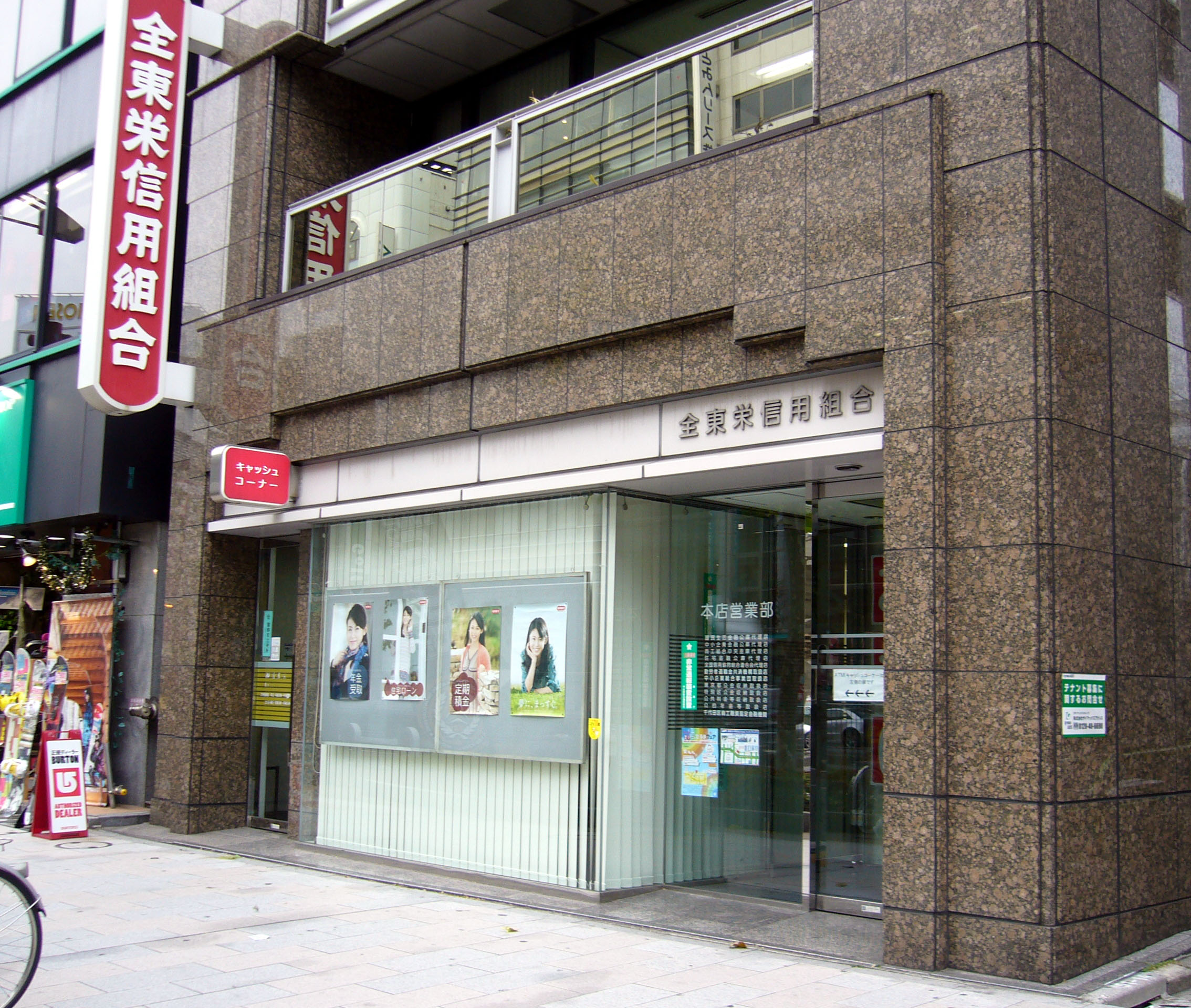 Zentouei Shinyokumiai Head Office (Japanese credit association)